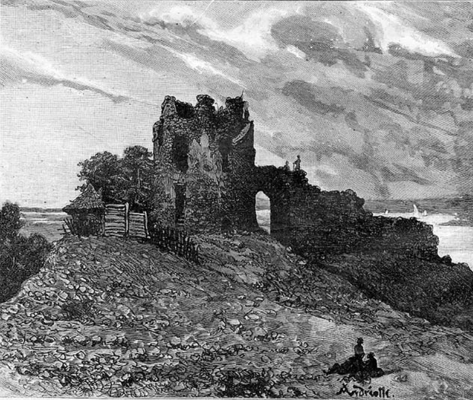 Ruins of Kaunas castle.